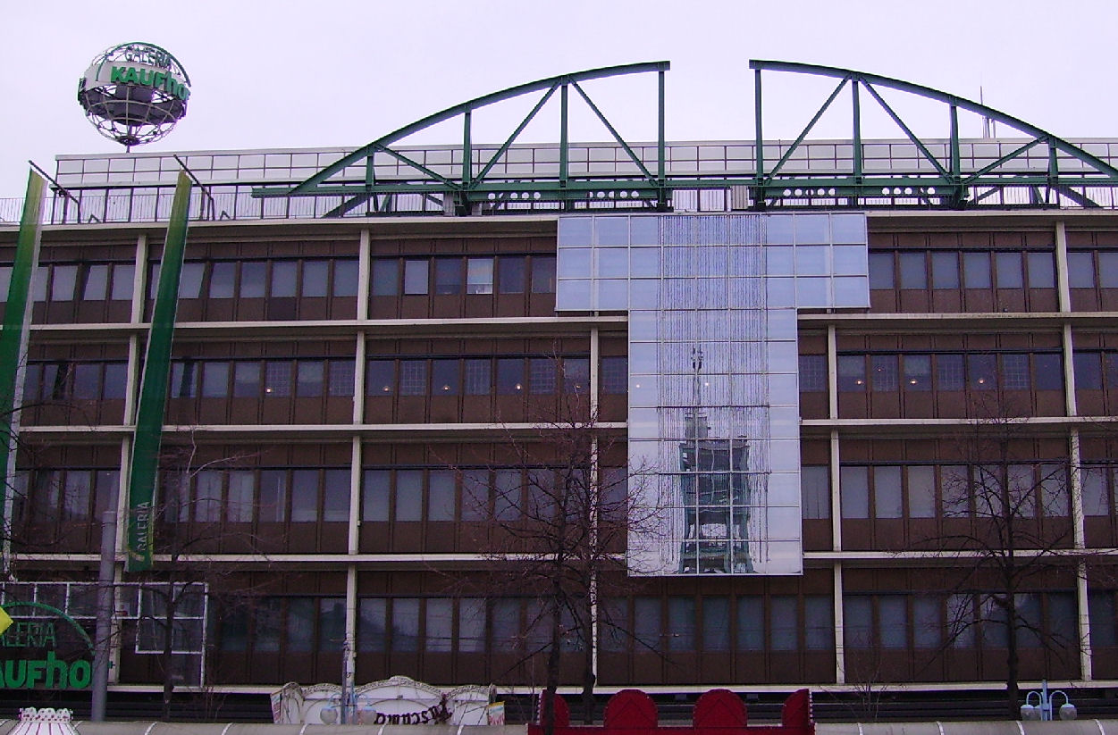 central street (Planken) of Mannheim in Germany